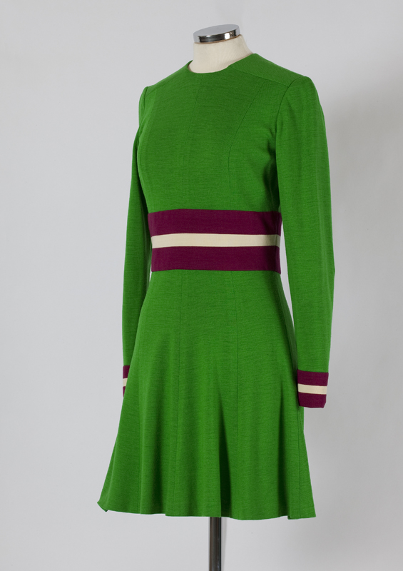 Emerald green, purple and white minidress by Mary Quant, London, mid 1960s